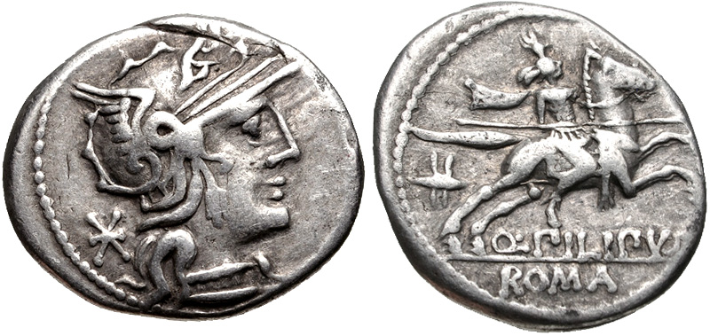 Quintus Marcius Philippus 129 BC. AR Denarius (19mm, 3.85 g, 4h). Rome mint. Helmeted head of Roma right; mark of value to left / Macedonian horseman riding right; Macedonian helmet to left. Crawford 259/1; Sydenham 477; Marcia 11. VF, toned, minor flan flaw on obverse. From the Nicoleta Collection.